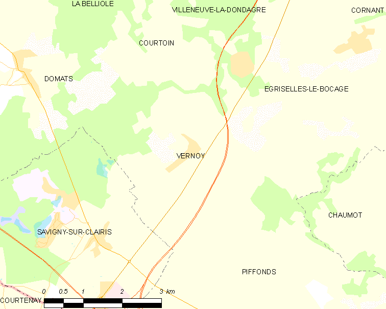 Map of French municipality Vernoy